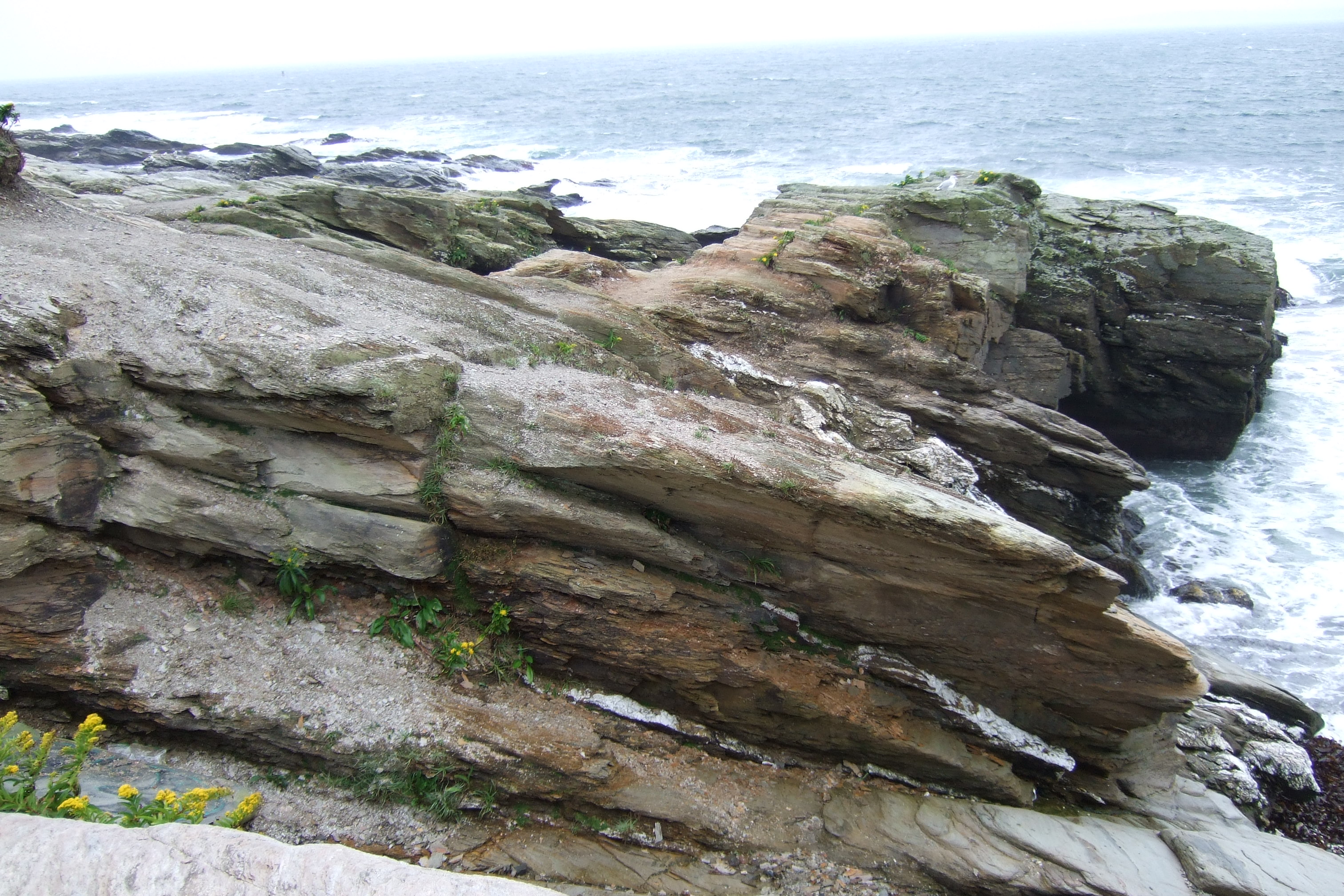 A point at the southern tip of Conanicut Island